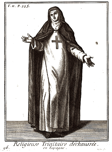 Trinitarian sister